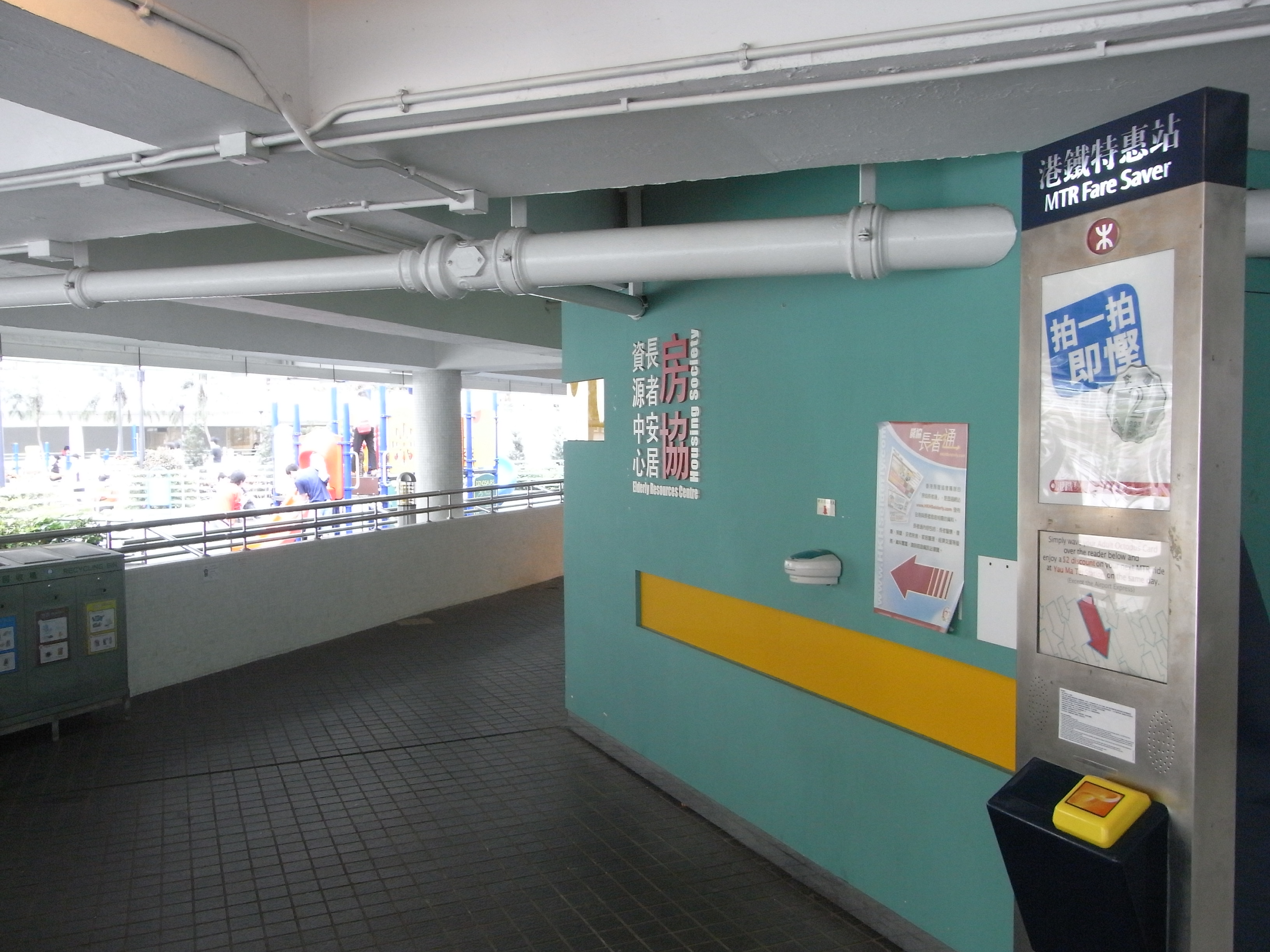 油麻地 駿發花園 港鐵特惠站毗鄰 房協長者安居資源中心